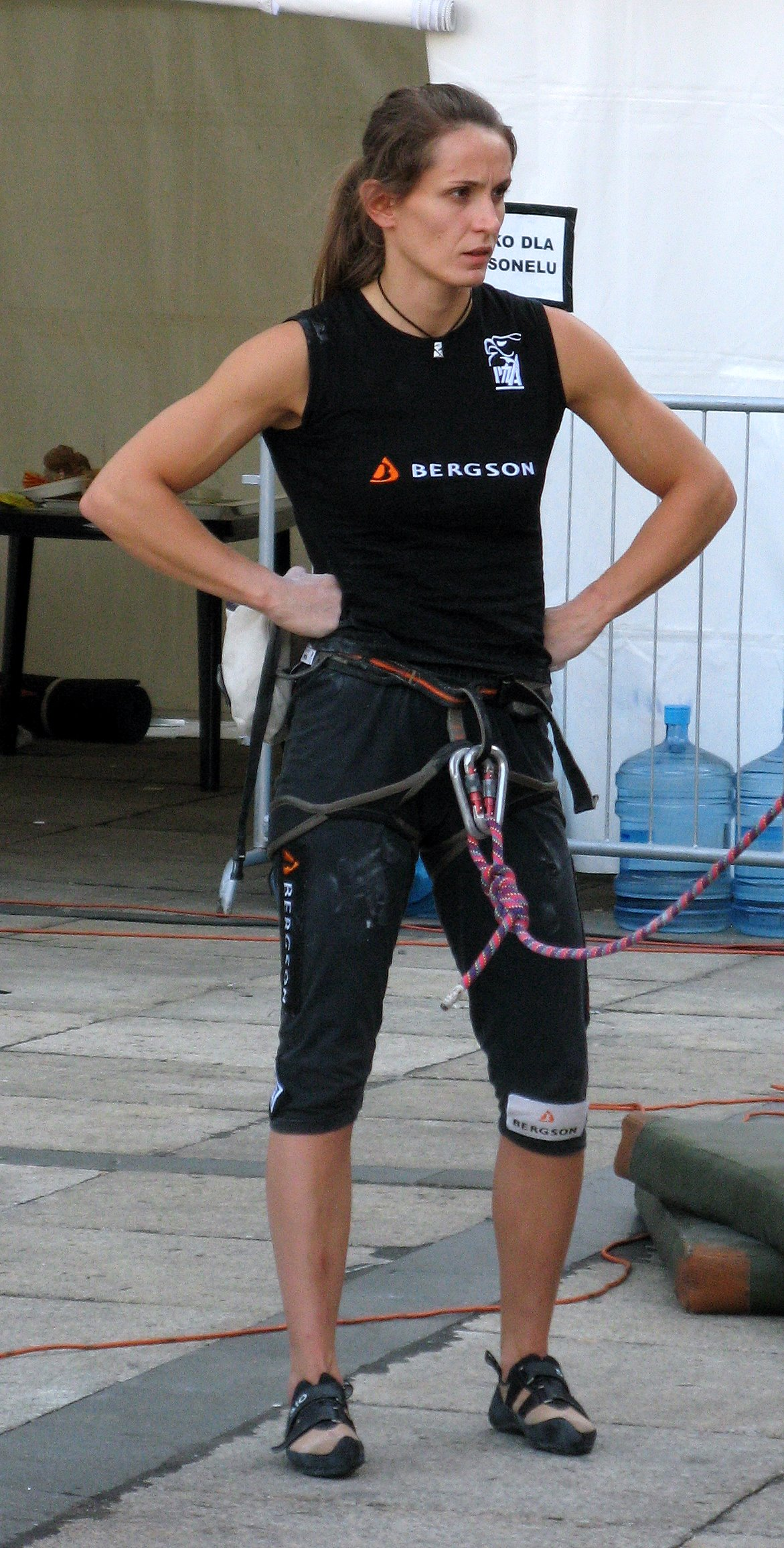 Edyta Ropek